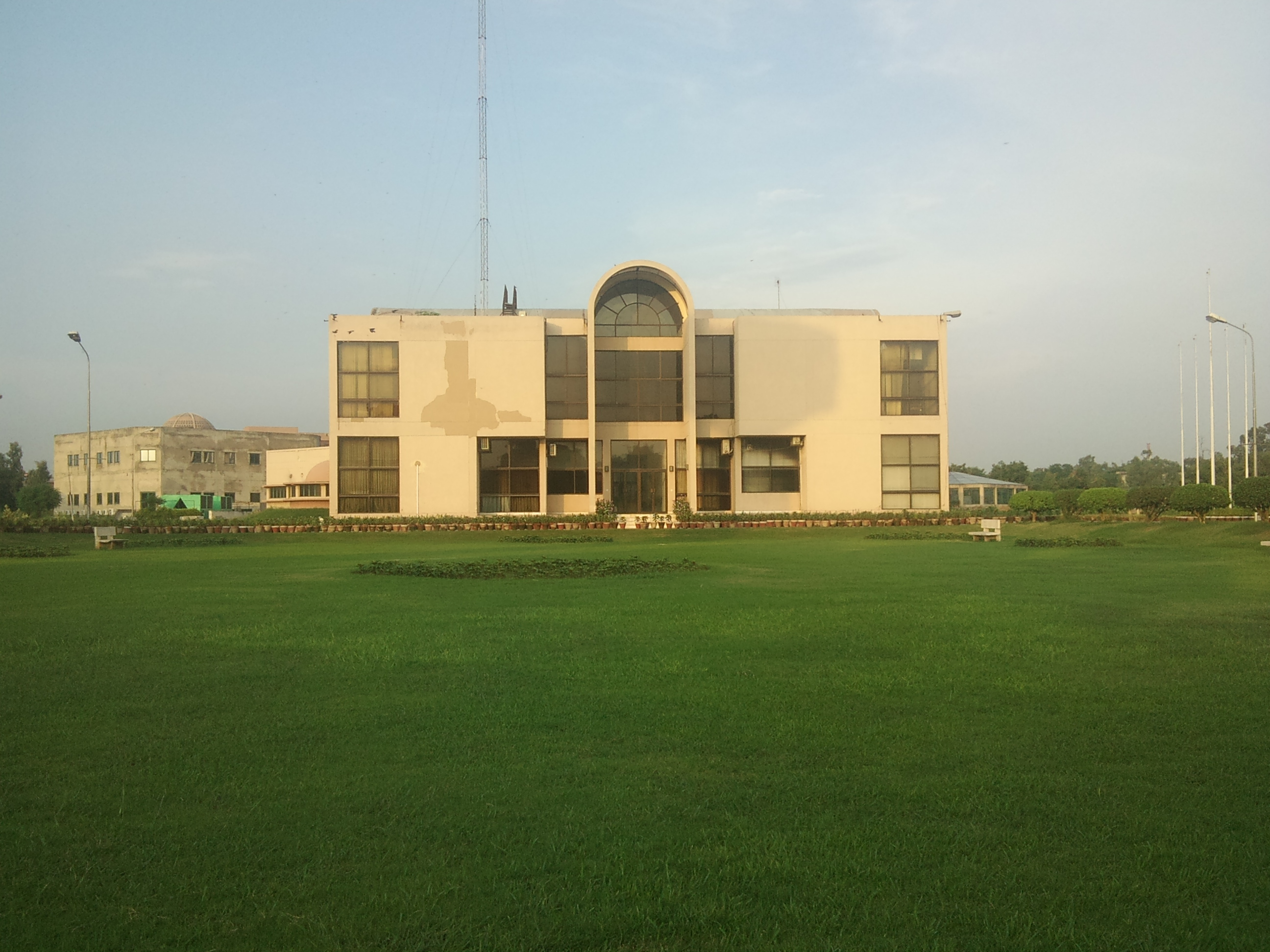 This is a picture of the main building of Centre of Excellence in Molecular Biology (CEMB)